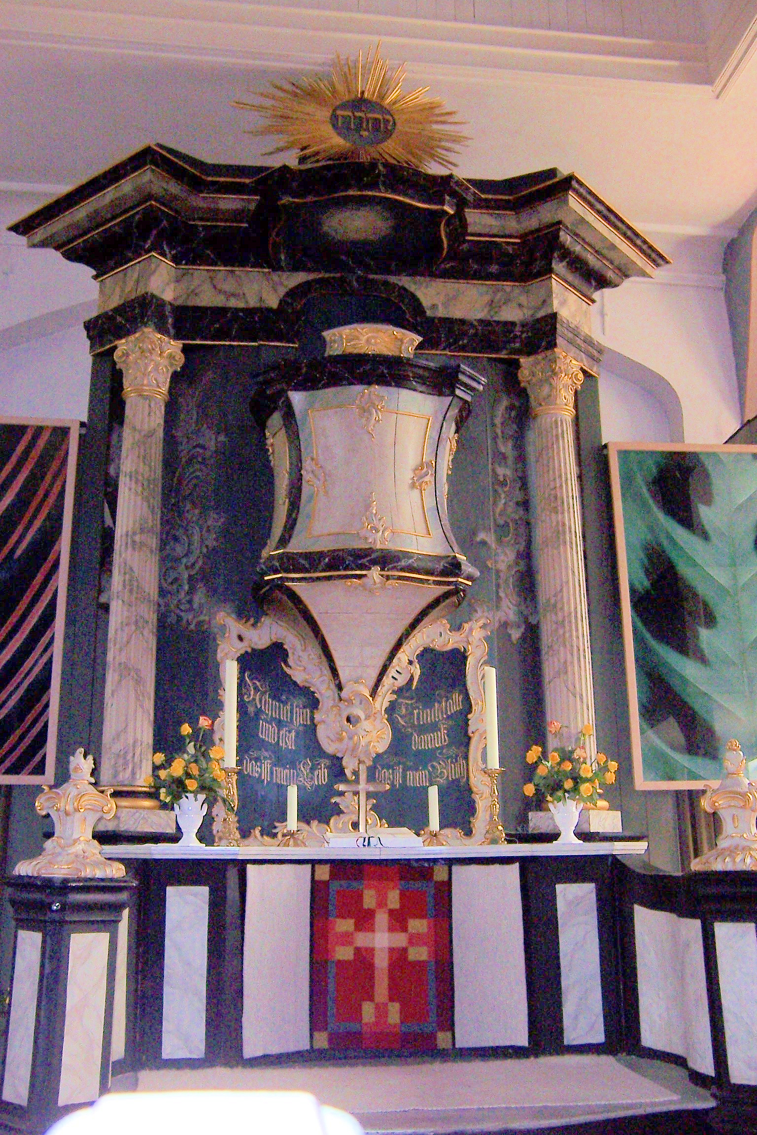 Altar (Kanzelaltar) of the Zionskirche, Worpswede